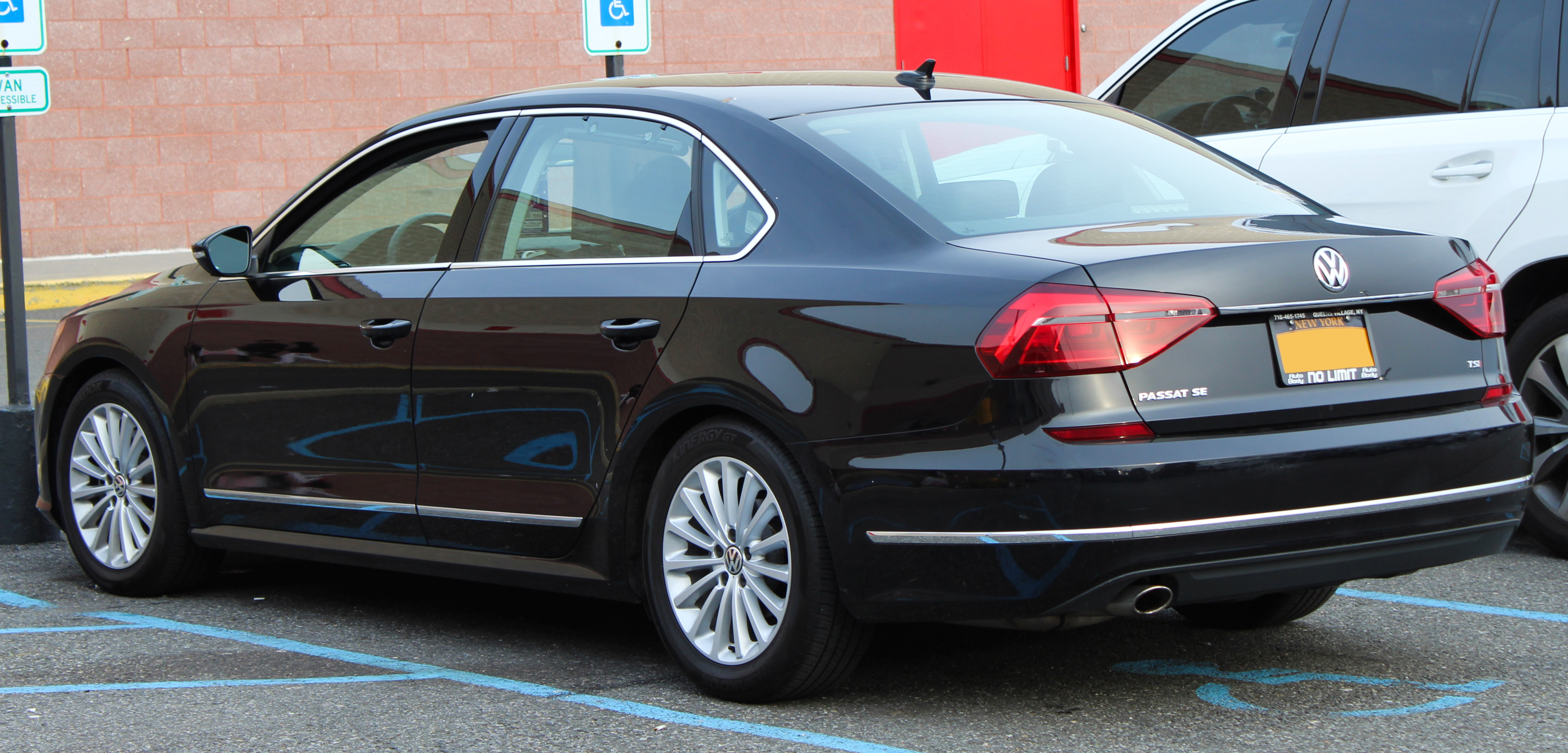 A 2017 Volkswagen Passat SE photographed in College Point, Queens, New York, USA